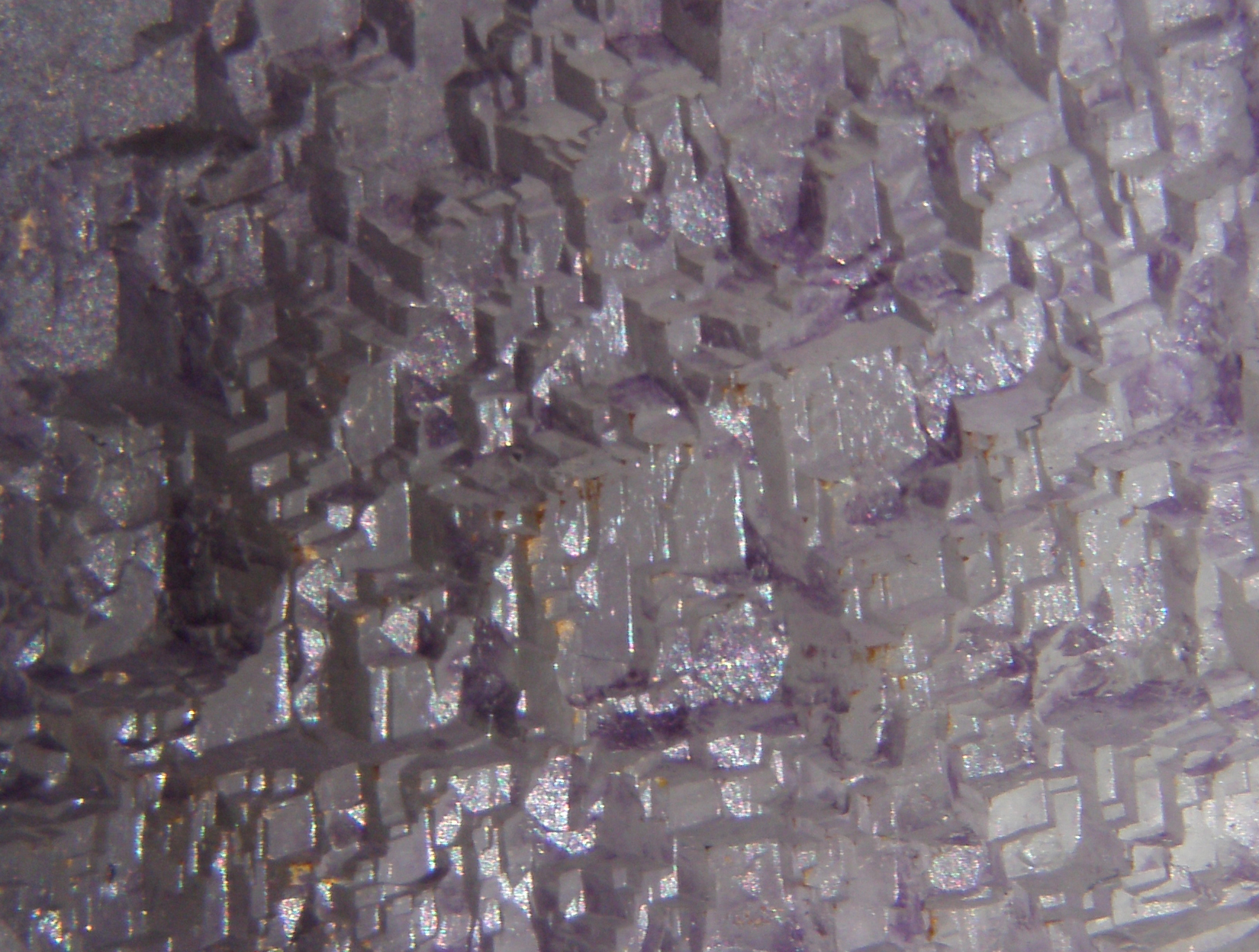 Closeup of Fluorite crystals